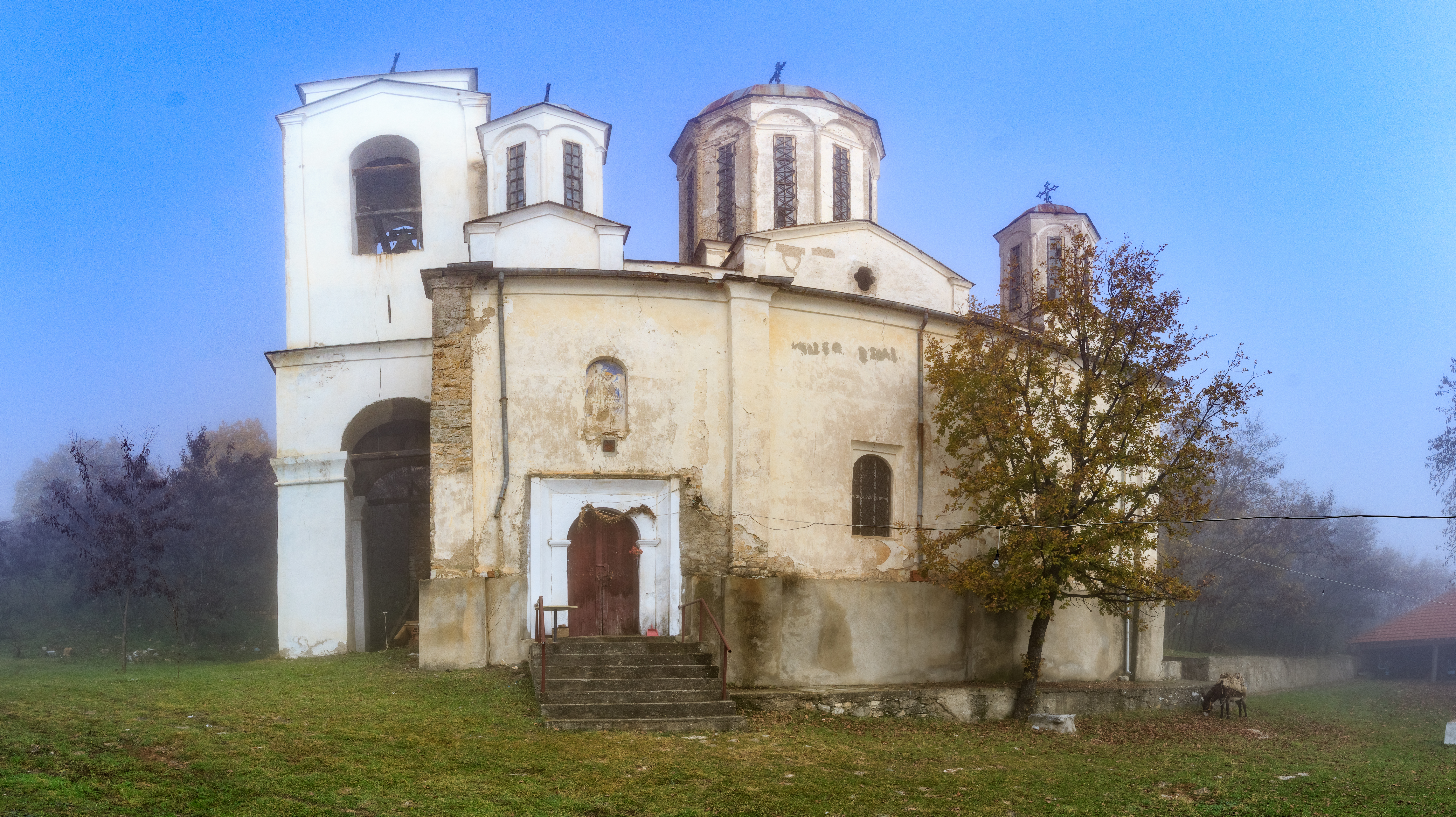 View of the monastery church St. Michael the Archangel Church of Čičevo Monastery